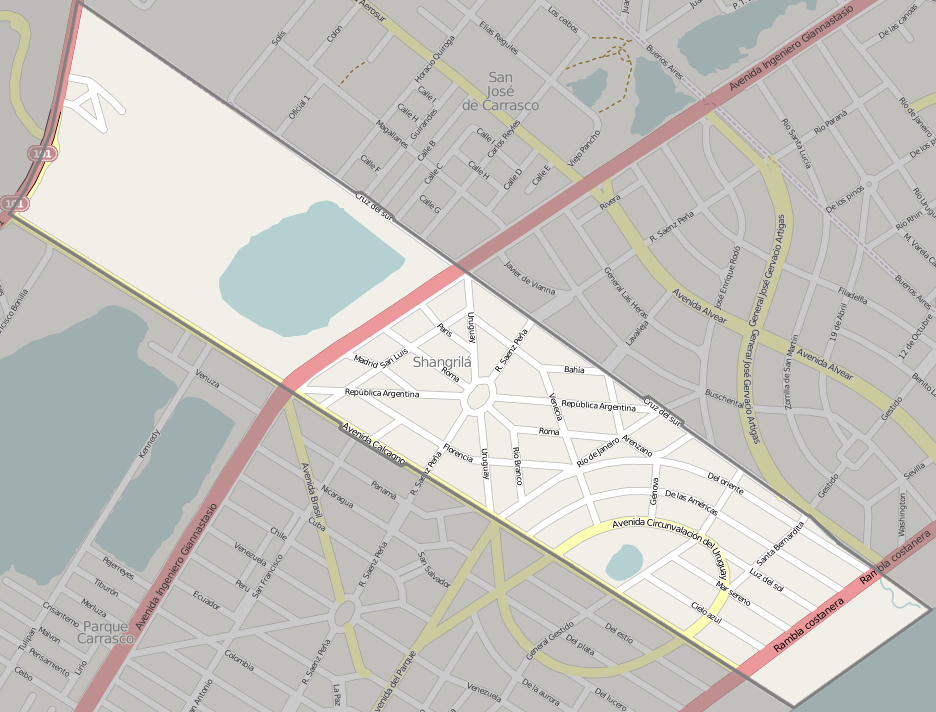 Street map of Shangrila, resort of the Ciudad de la Costa, Canelones Department, Uruguay, exported from OpenStreetMap. I added shading to delimit the resort. This map may be incomplete, and may contain errors. Don't rely solely on it for navigation.